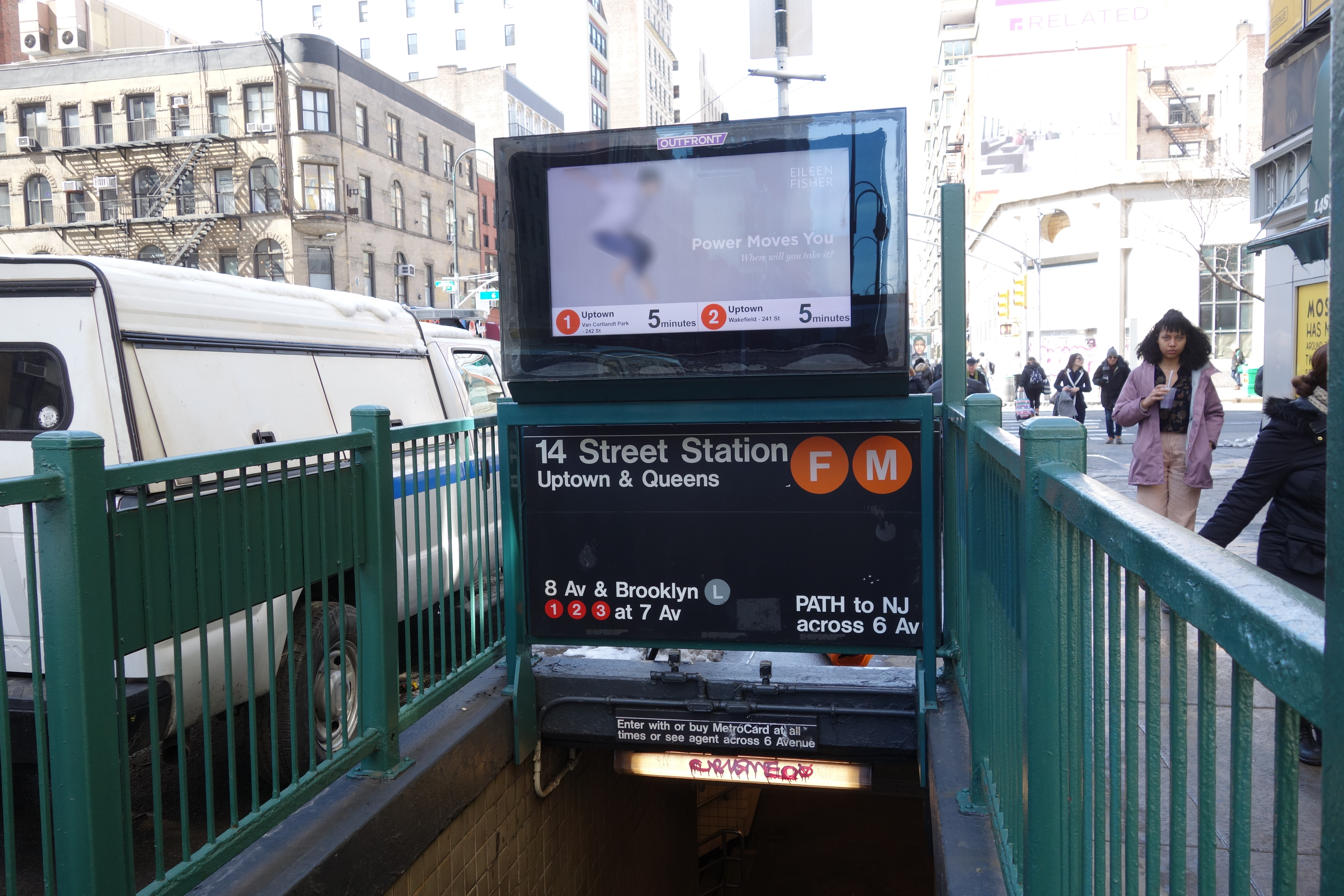 The two entrances into the 14th Street / Sixth Avenue subway complex, at the northeast corner of 14th Street and 6th Avenue in Chelsea / Greenwich Village, Manhattan.